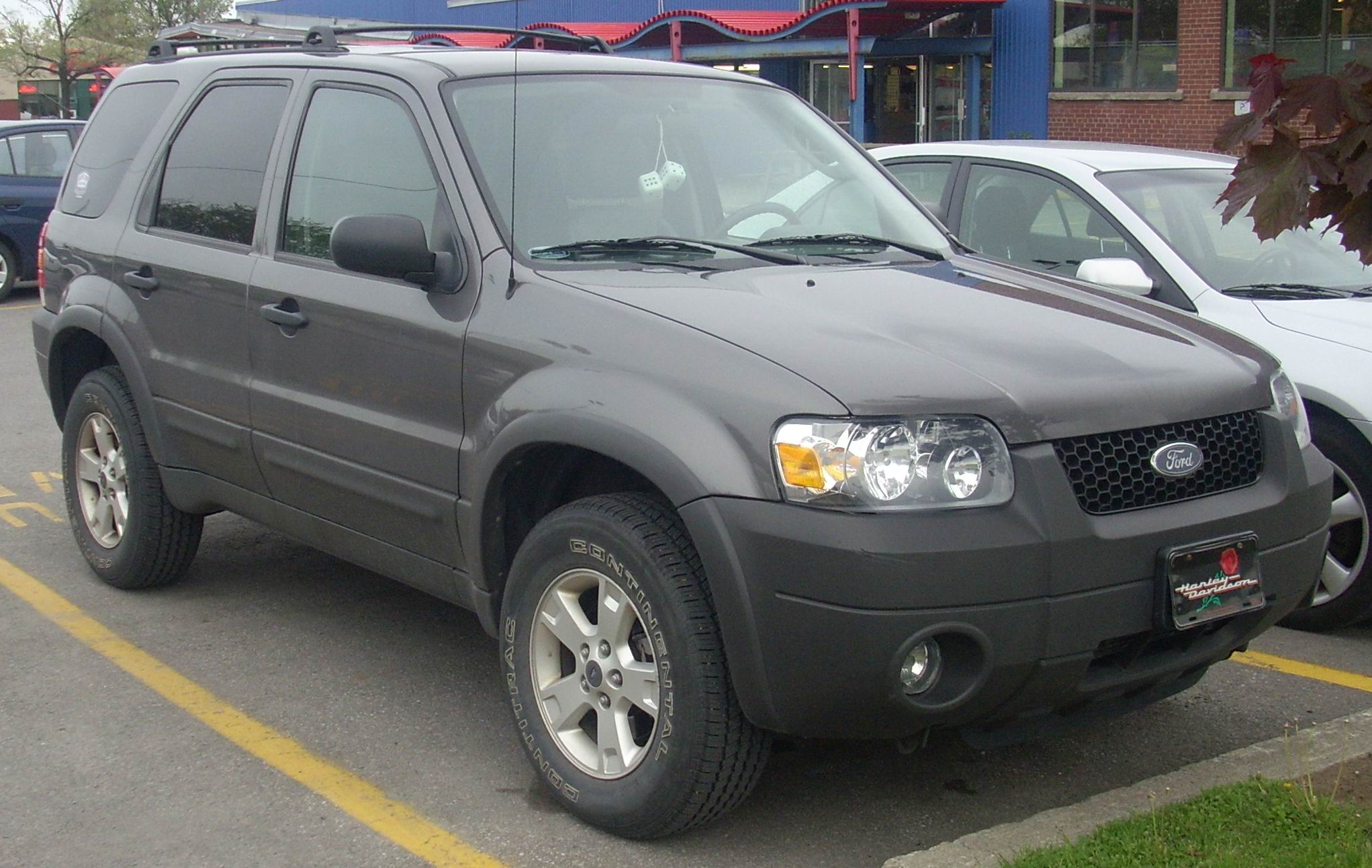 2005-2007 Ford Escape photographed in Montreal, Quebec, Canada.